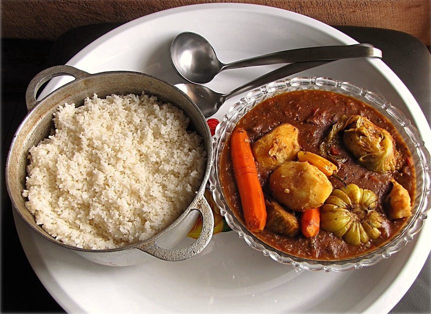 Popular Senegalese meat and vegetable sauce usually served over steamed rice. Distinct flavorings include fermented African locust bean and guedj a salt-cured fish